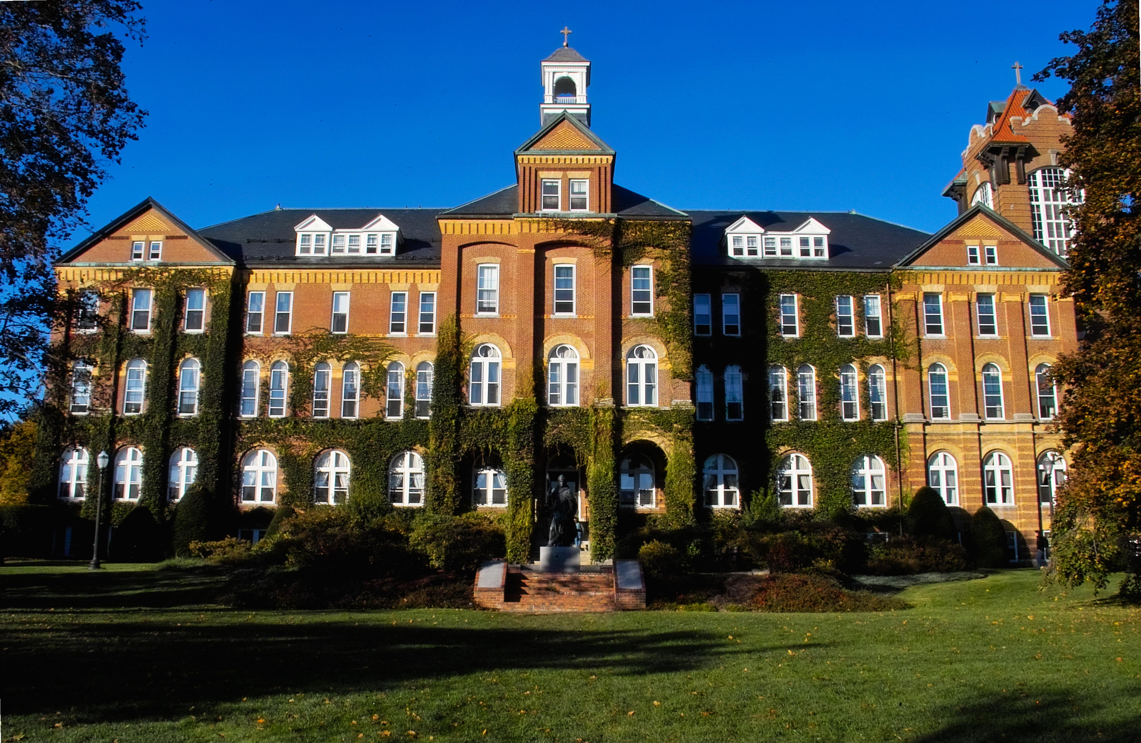 Saint Anselm College's Alumni Hall, built in 1889, it is the current administration building. This image was taken in April of 2009 on the Quad just a few hours after sunrise